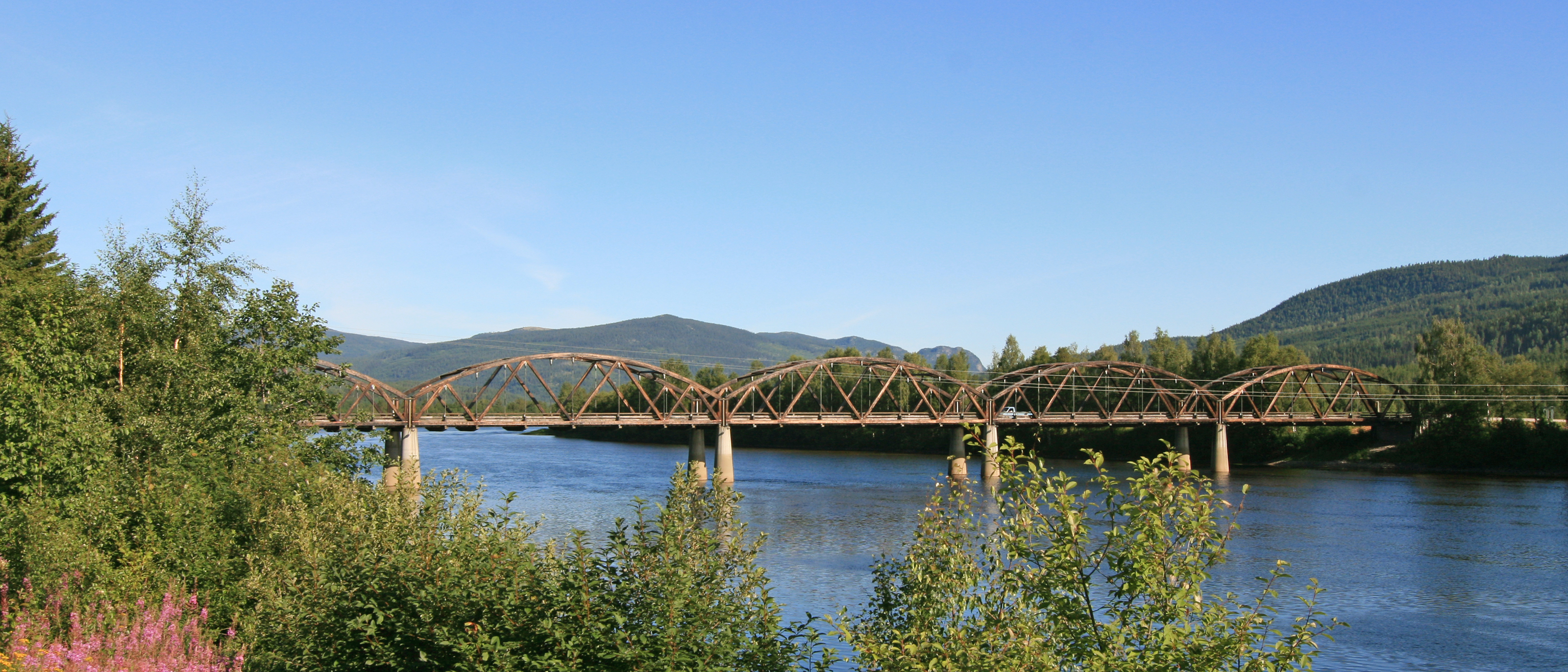 Evenstad bridge, Hedmark, Norway. Truss bridge of glued laminated beams.